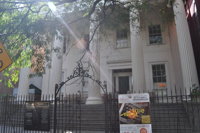 Barrow Mansion in Jersey City